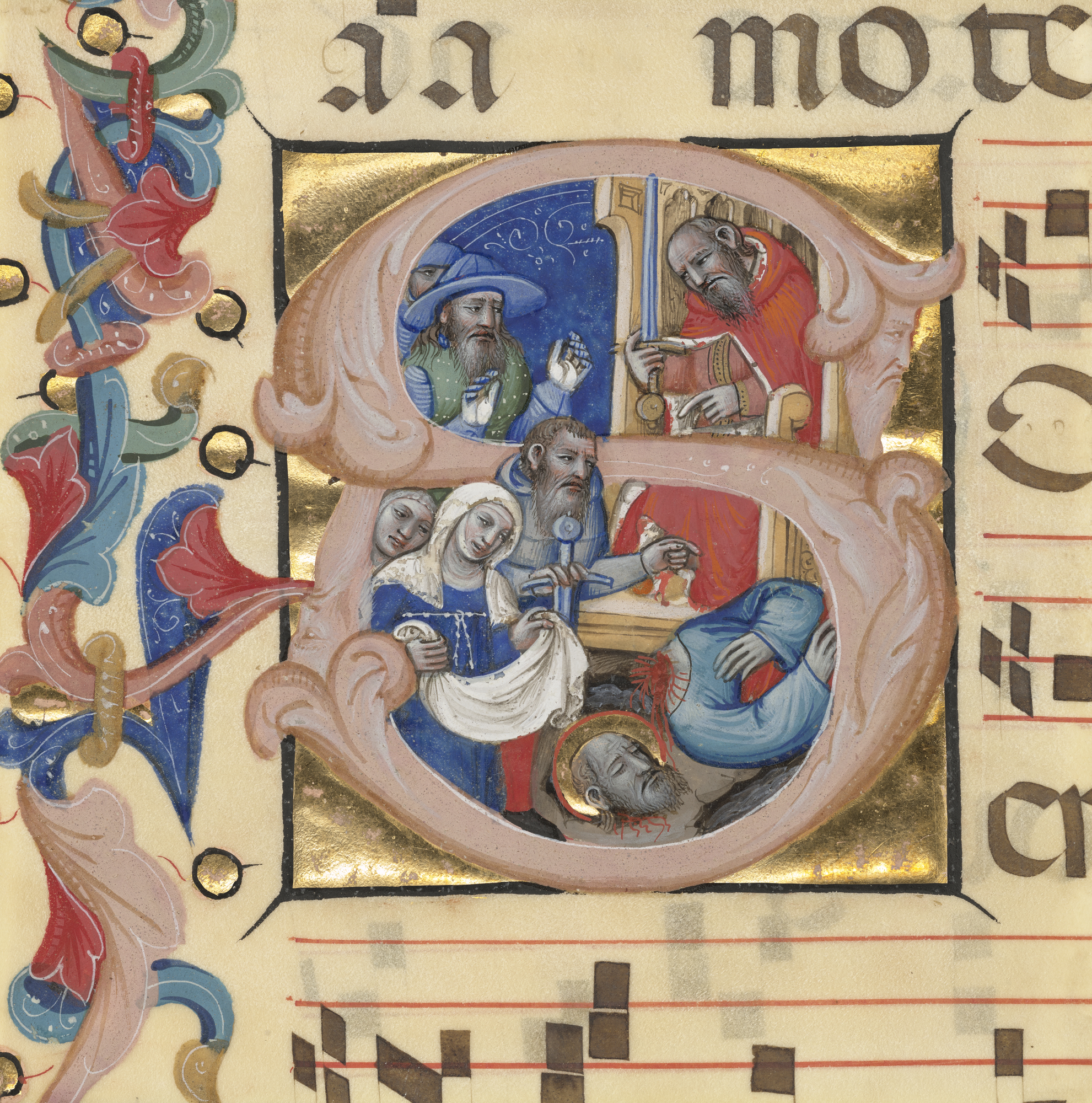 Leaf from the Gradual of the Carthusian Monastery Santo Spirito near Lucca by Niccolò di Giacomo da Bologna, about 1392-1402, tempera and gold leaf, 35.6 × 30.5 cm (14 × 12 in.), Getty Center